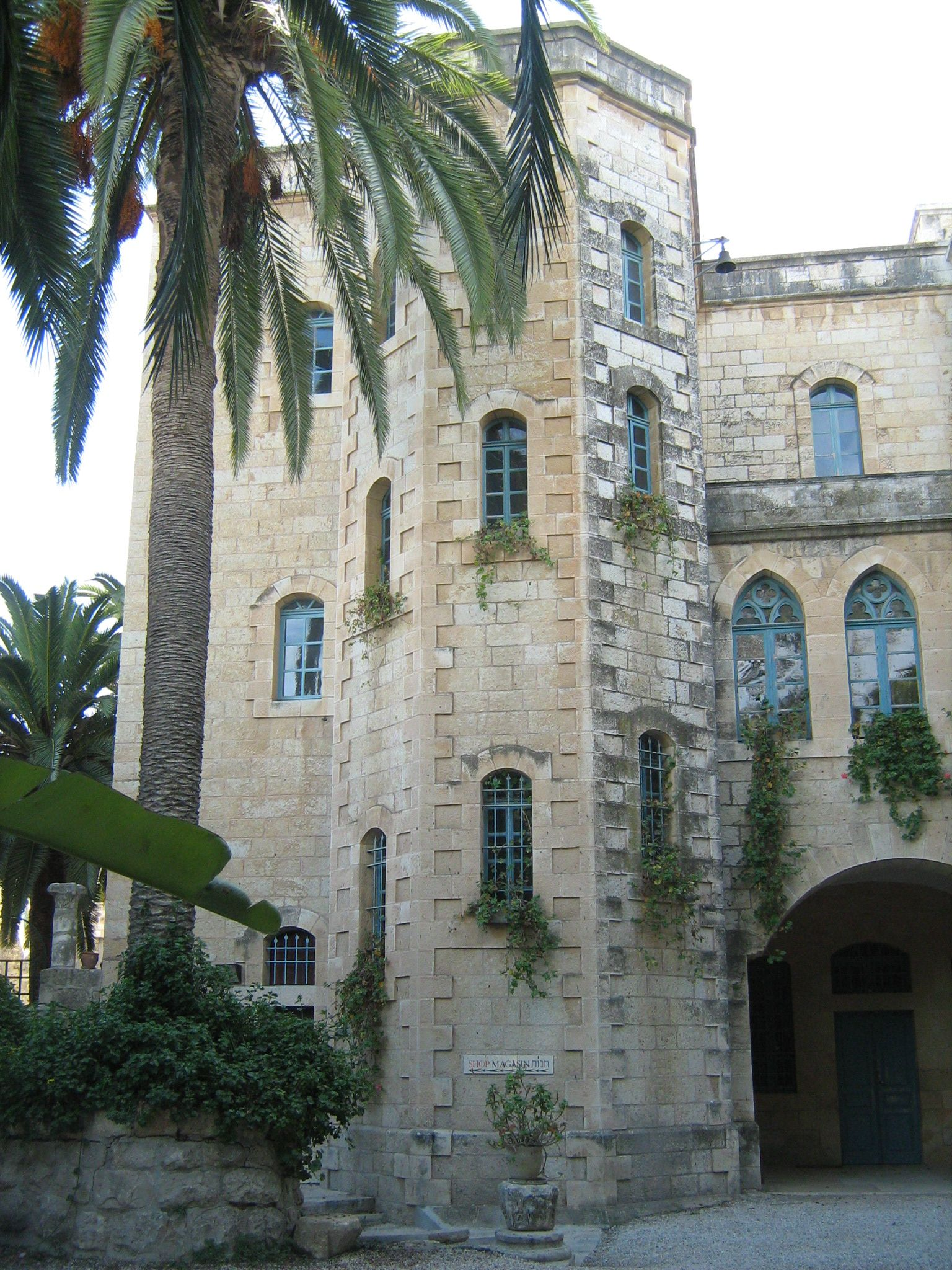 המנזר הבנדיקטיני באבו גוש